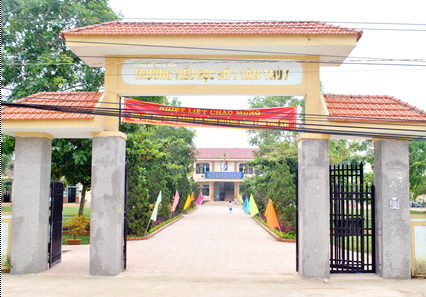 very good